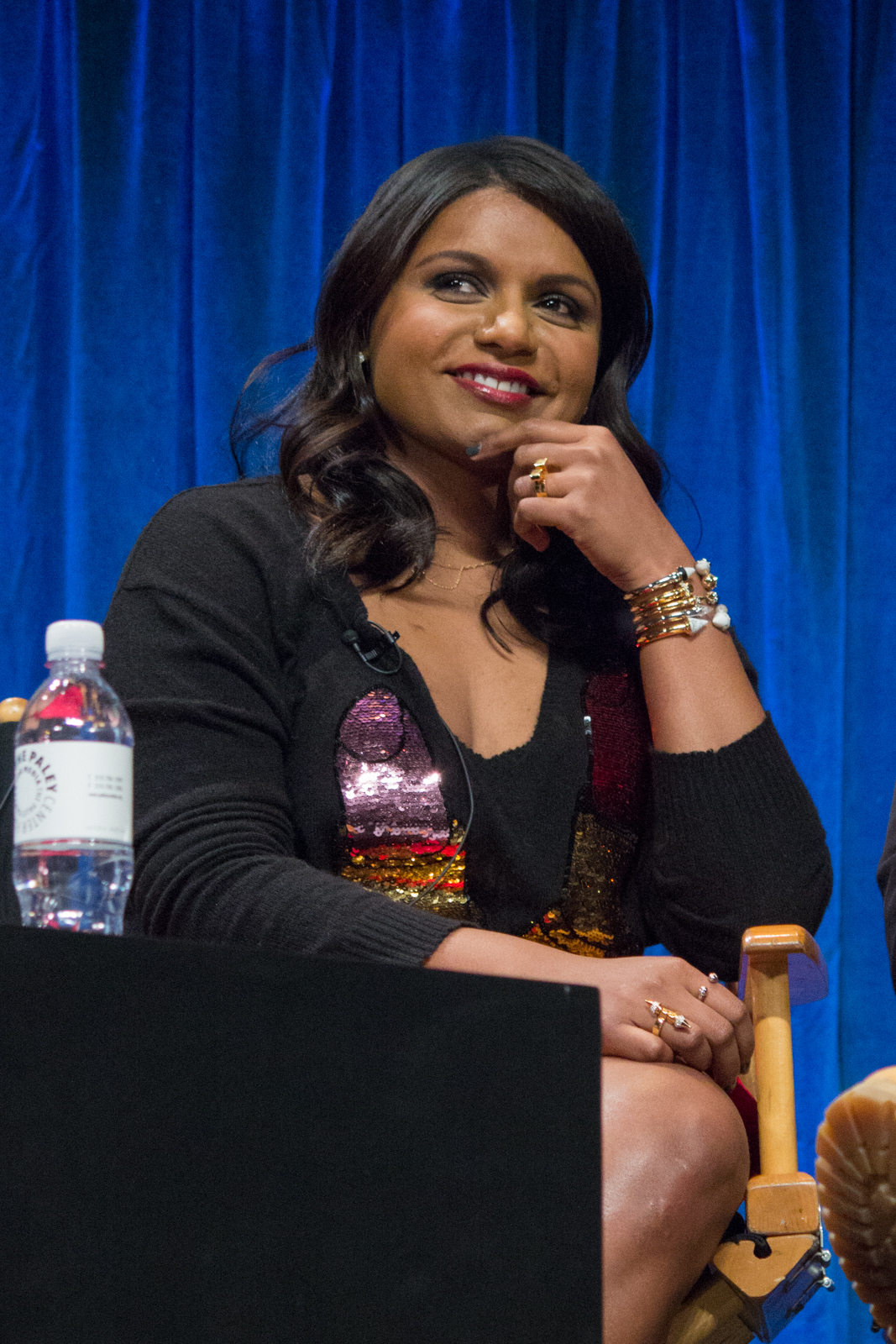 Actress Mindy Kaling at PaleyFest 2013's panel for "The Mindy Project"